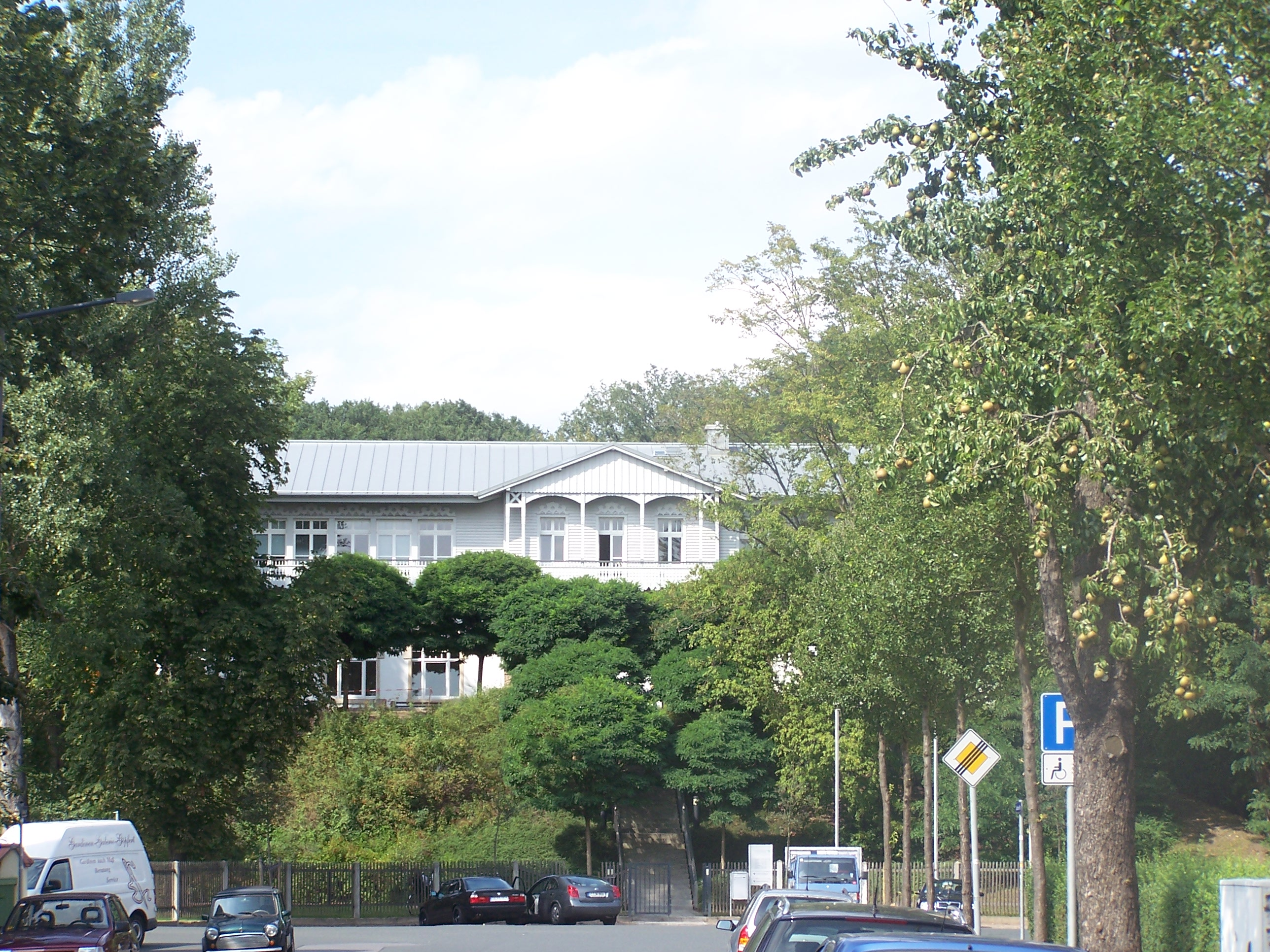 agency of the state Saxony in Dresden to promote political education